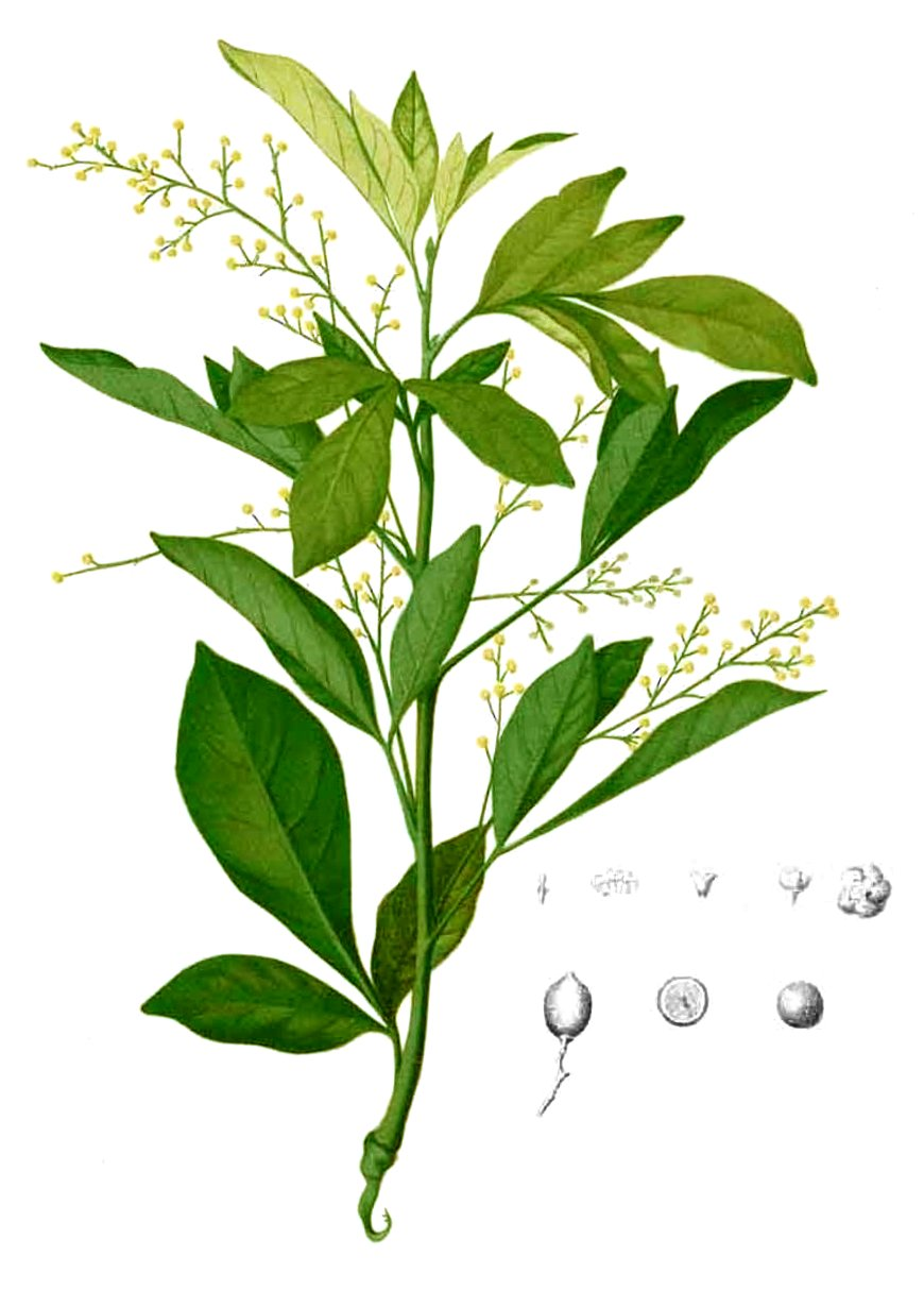 Aglaia odorata, Plate from book